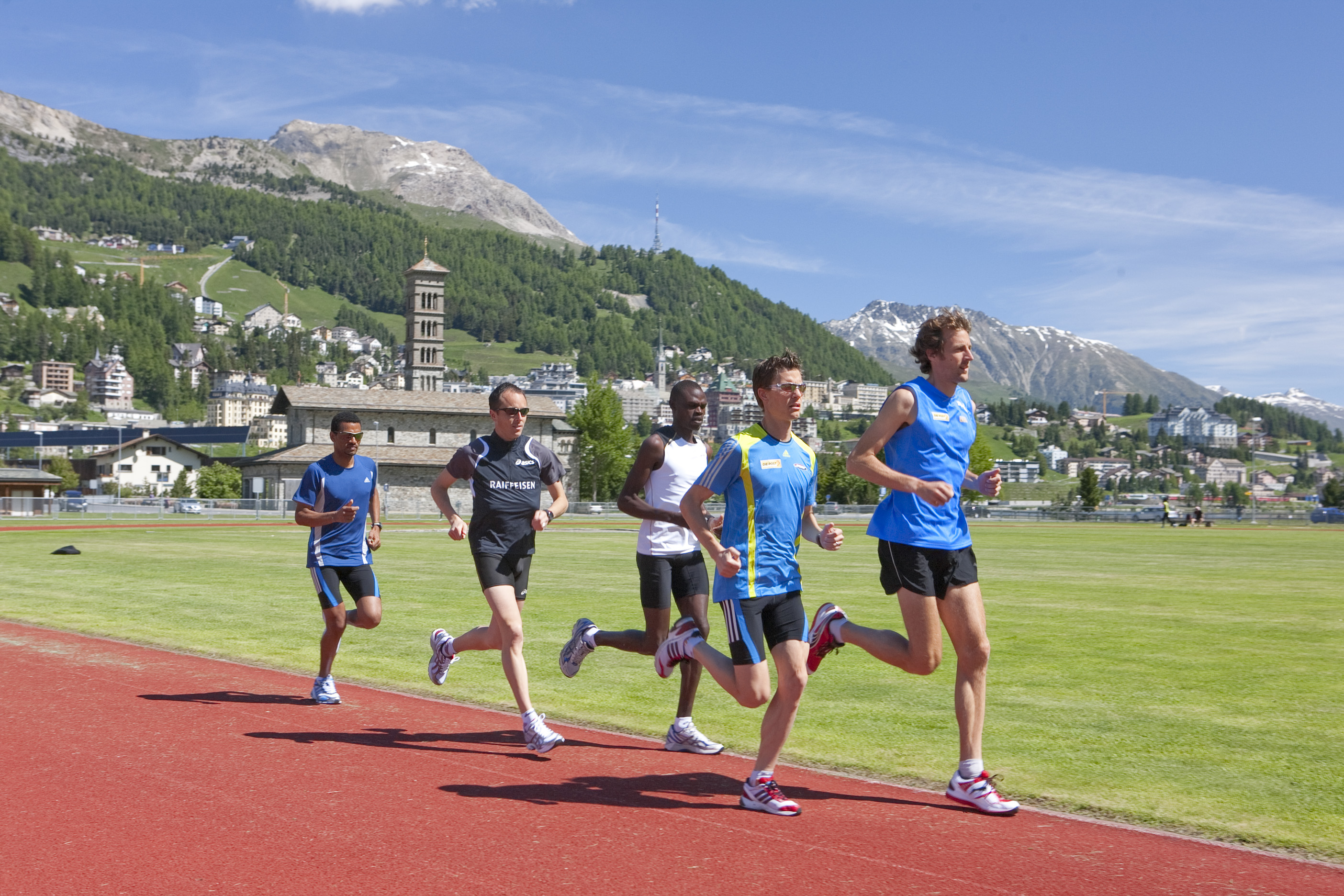 Swiss Olympic Training Base in St. Moritz / Engadin in the Swiss Alps